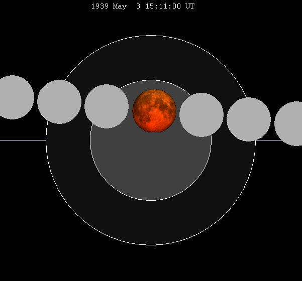 May 1939 lunar eclipse chart of moon's path through the earth's shadow. thumb